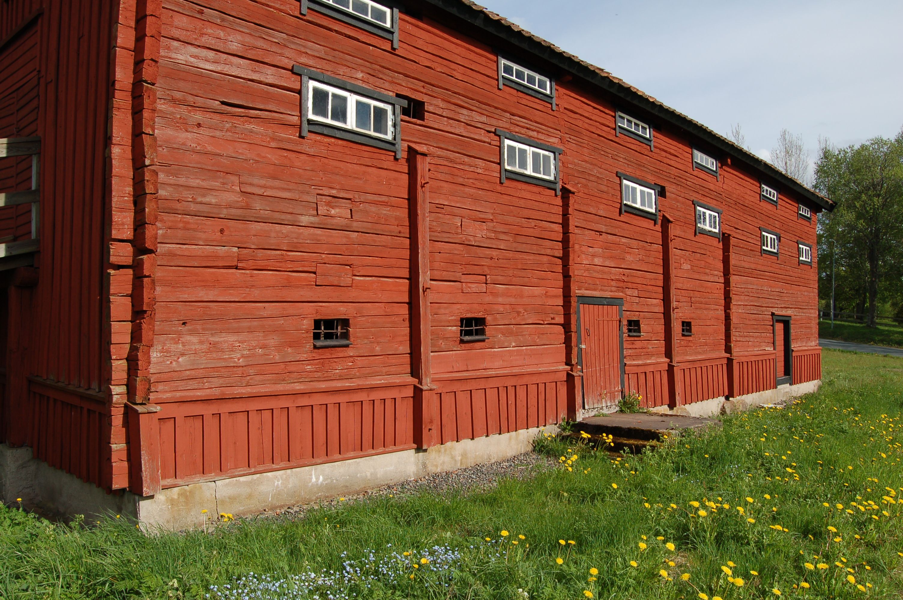 Swedish Barn, in Barnarp, near Jönköping